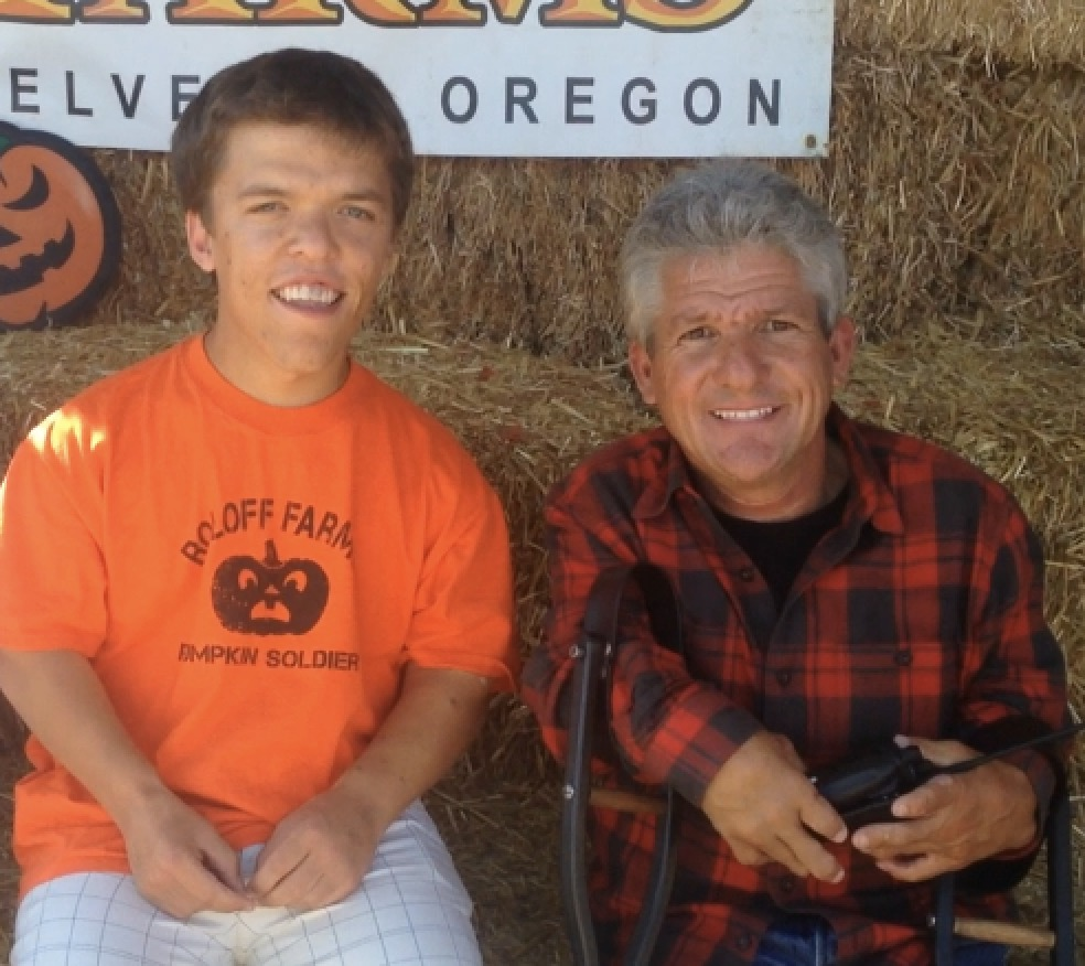 Matt and Zach Roloff of Little People, Big World.